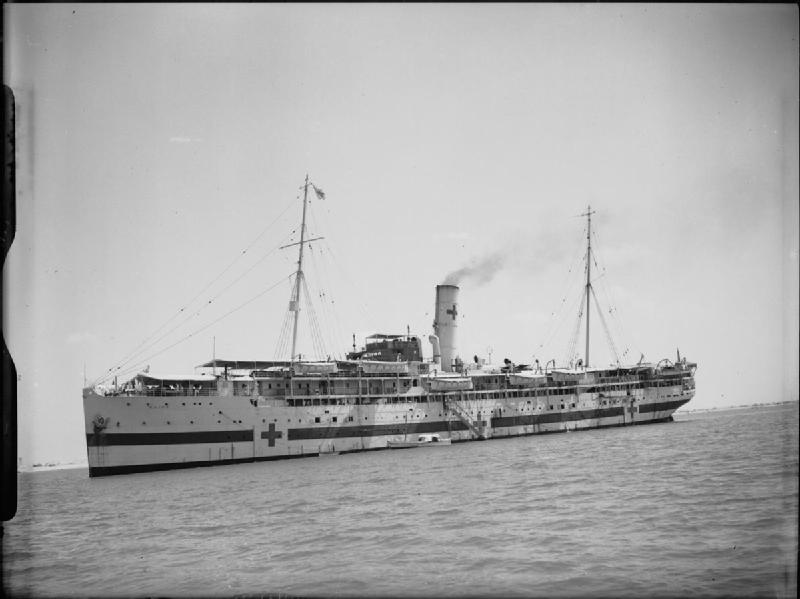 Hmhs Maine The Hospital Ship MAINE which served the Royal Navy in the Mediterranean. The MAINE was 41 years old and the only ship of her kind in the Mediterranean at the time of photographing. Other hospital ships in the Mediterranean were chartered by the Army.